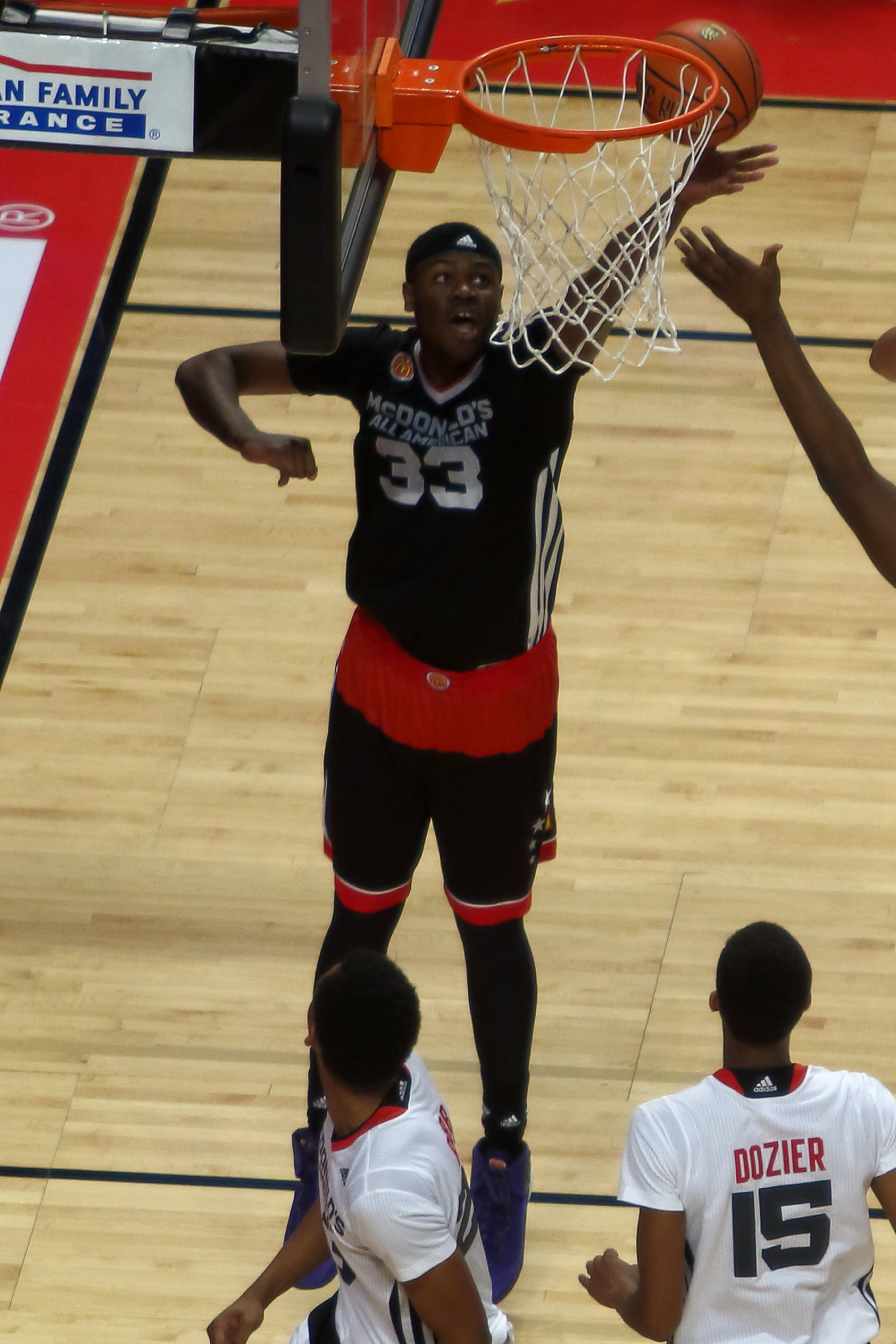 Diamond Stone in the w:2015 McDonald's All-American Boys Game